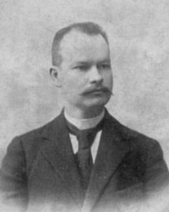 Karl Behting (1867-1943), Latvian chess master and composer